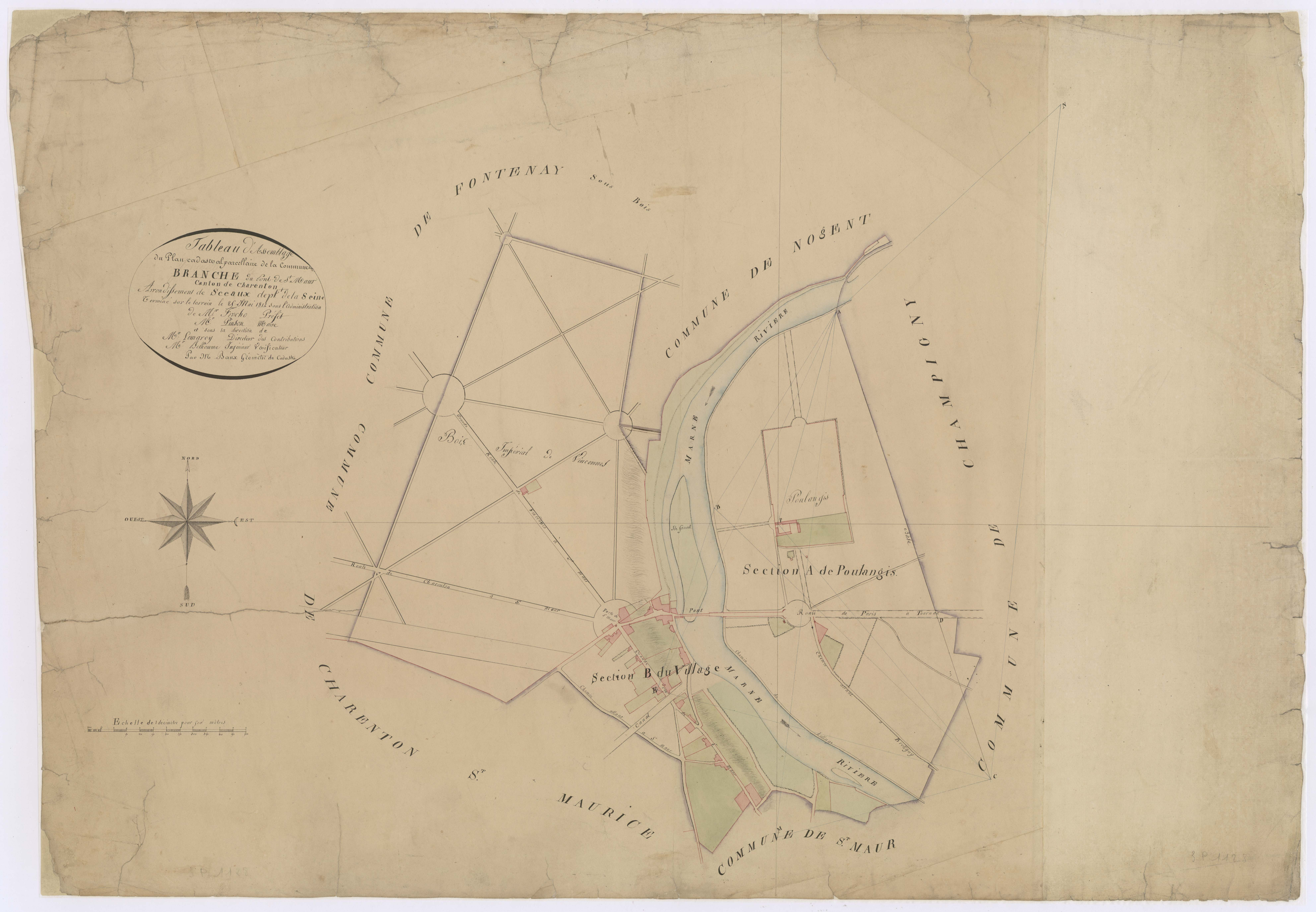 La Branche du Pont de Saint Maur, France, communal map, 1812